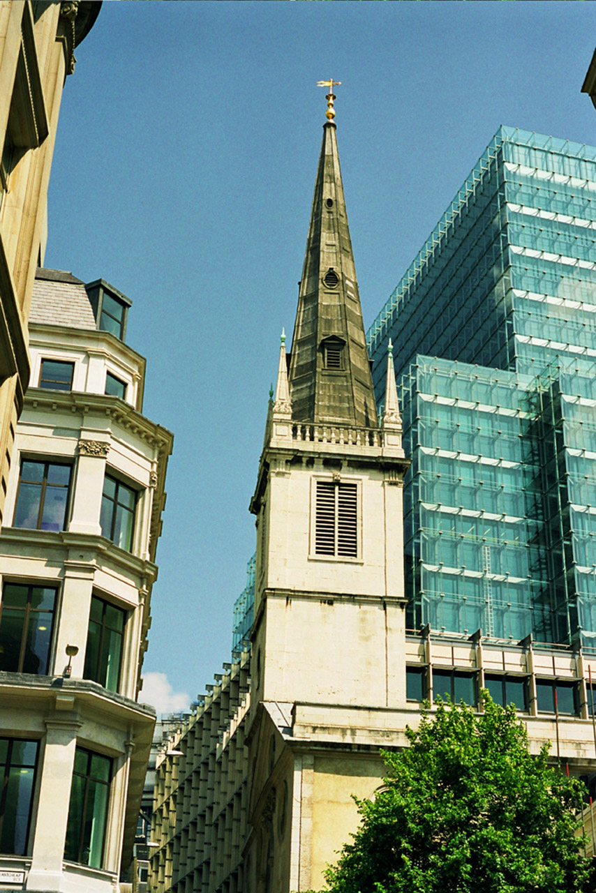 St. Margaret Pattens, by Sir Christopher Wren, 1687